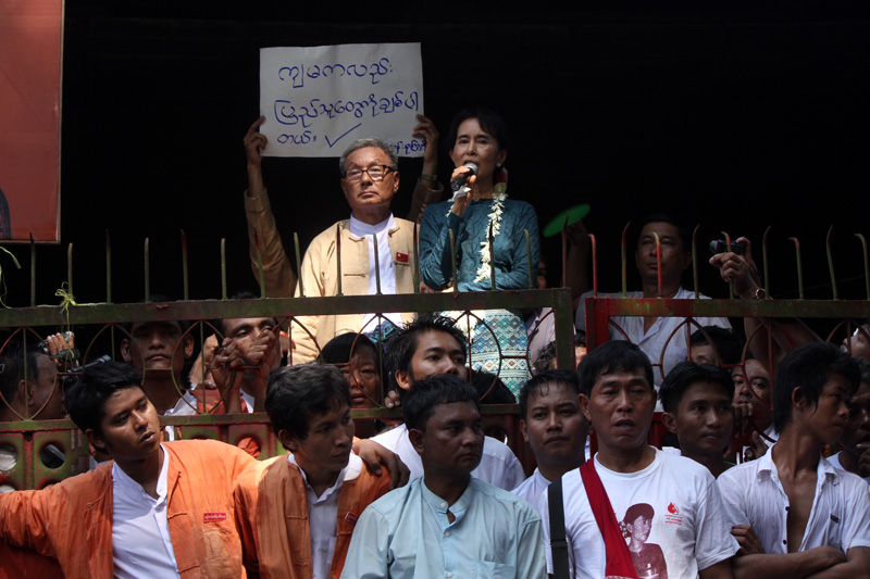 Aung San Suu Kyi meets with crowd after house arrest lift on 14 November 2010.